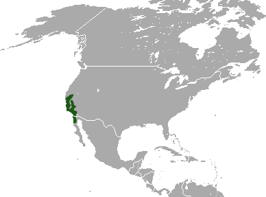 Ornate Shrew (Sorex ornatus) range